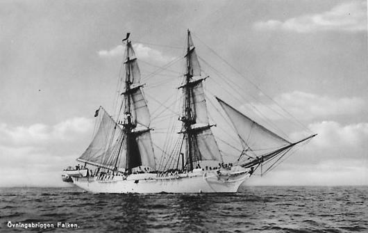 Postcard of the Swedish brig HMS Falken.